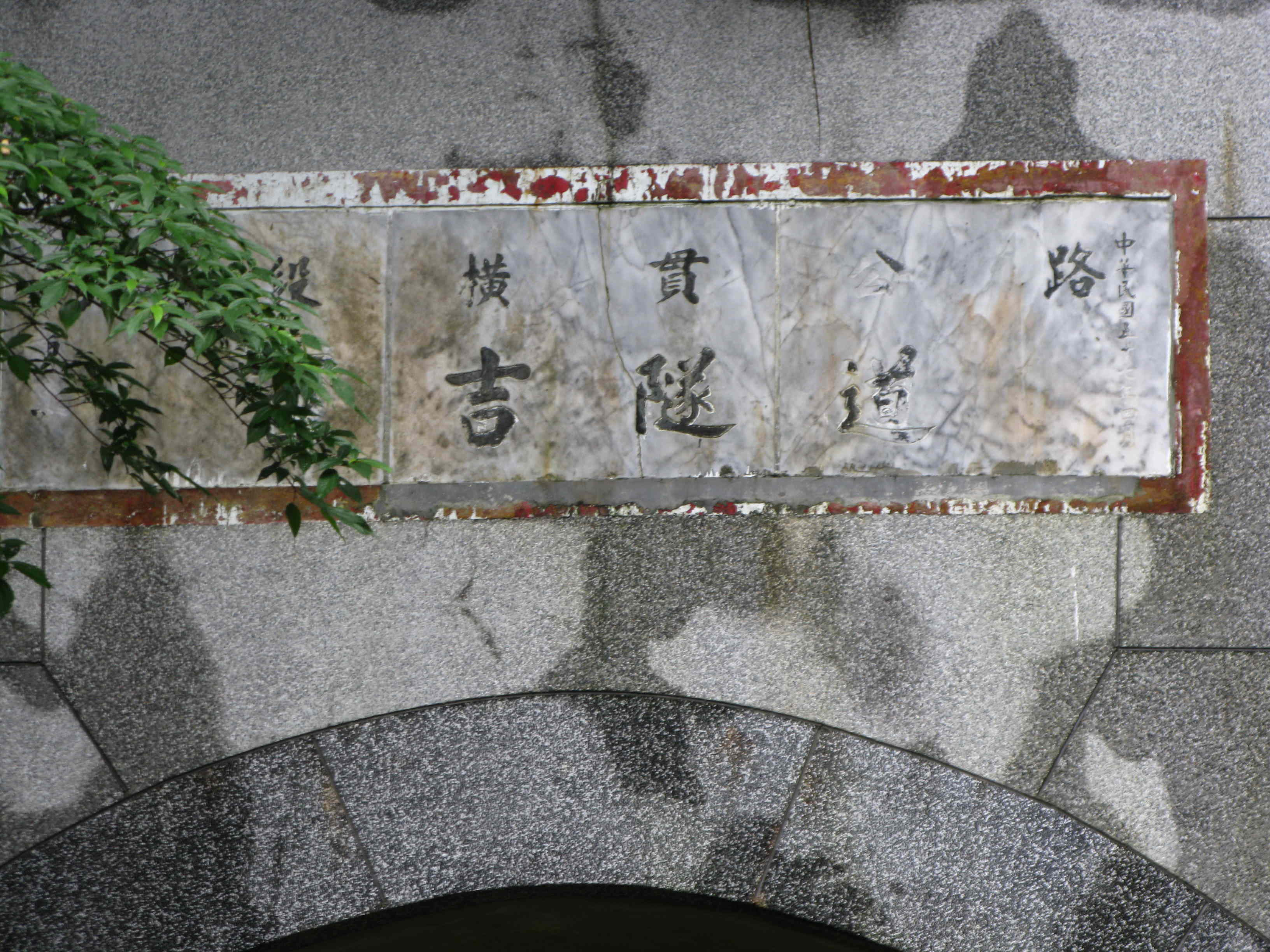 Northern Highway Bai-Ji Tunnel,TAIWAN